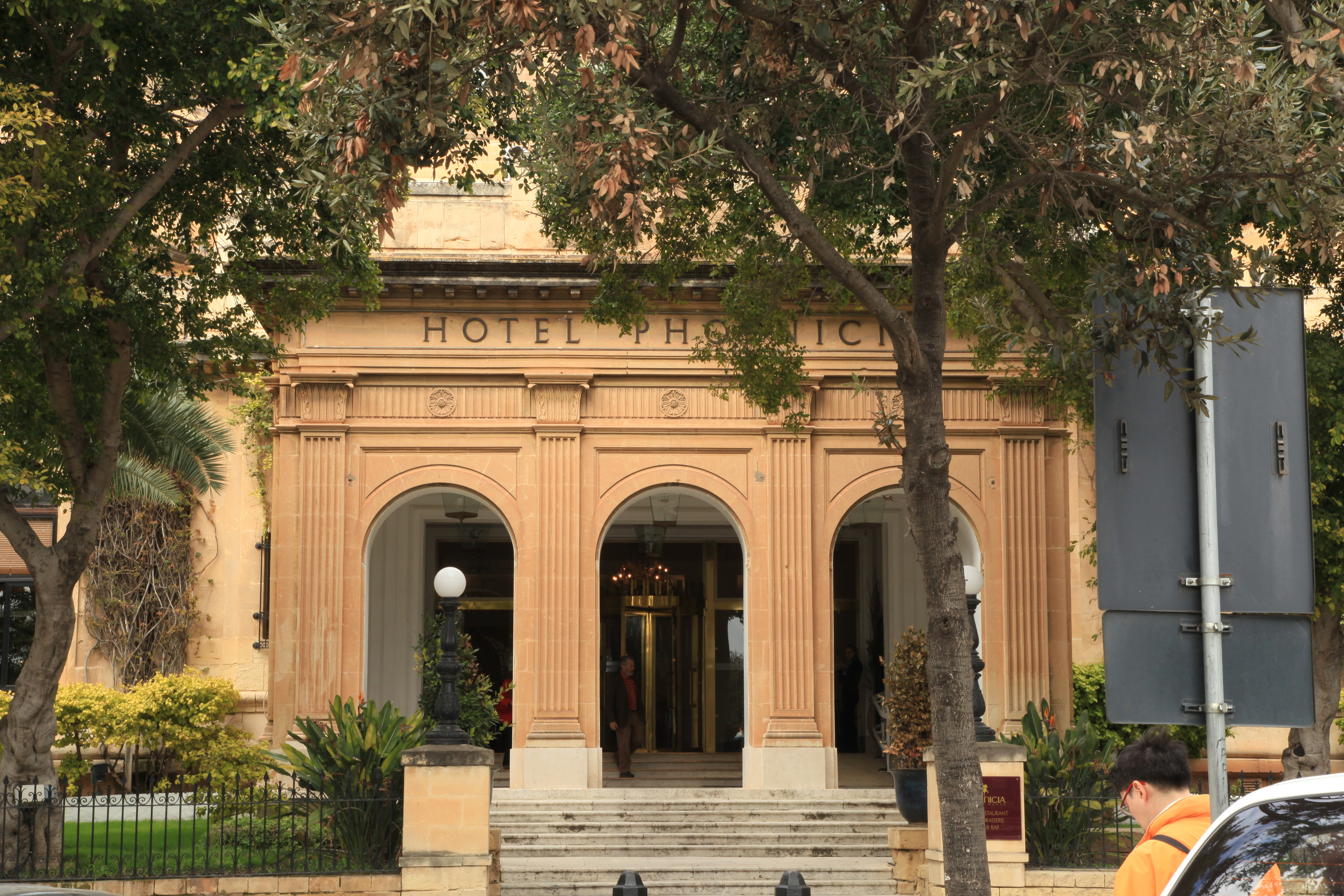 Hotel Phoenicia at Triq l-Assedju l-Kbir (not Vjal il-Re Dwardu VII!) in Floriana, Malta